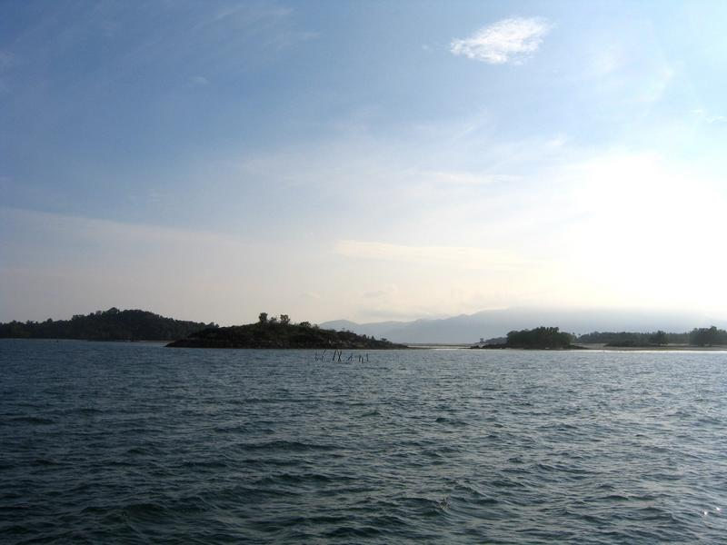 By Dheera Venkatraman. I took this photo on a trip through the region in summer 2004. Original